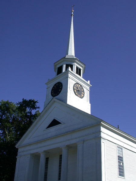 First Parish Church (1755) on Main Street in Groton (taken Sept. 20, 2004) © 2004 Matthew Trump